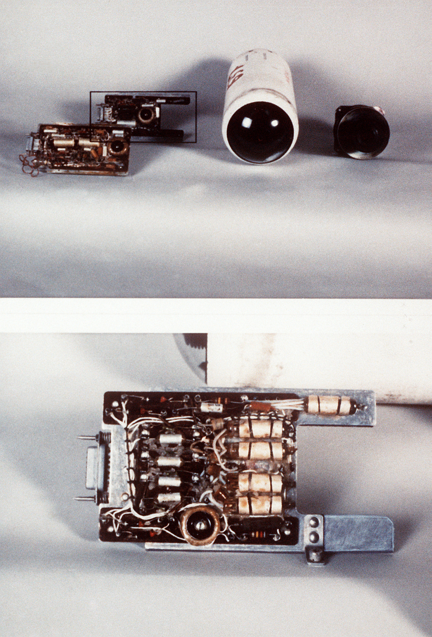 A close-up view of an infrared seeker from a Soviet AA-2D Atoll air-to-air missile.